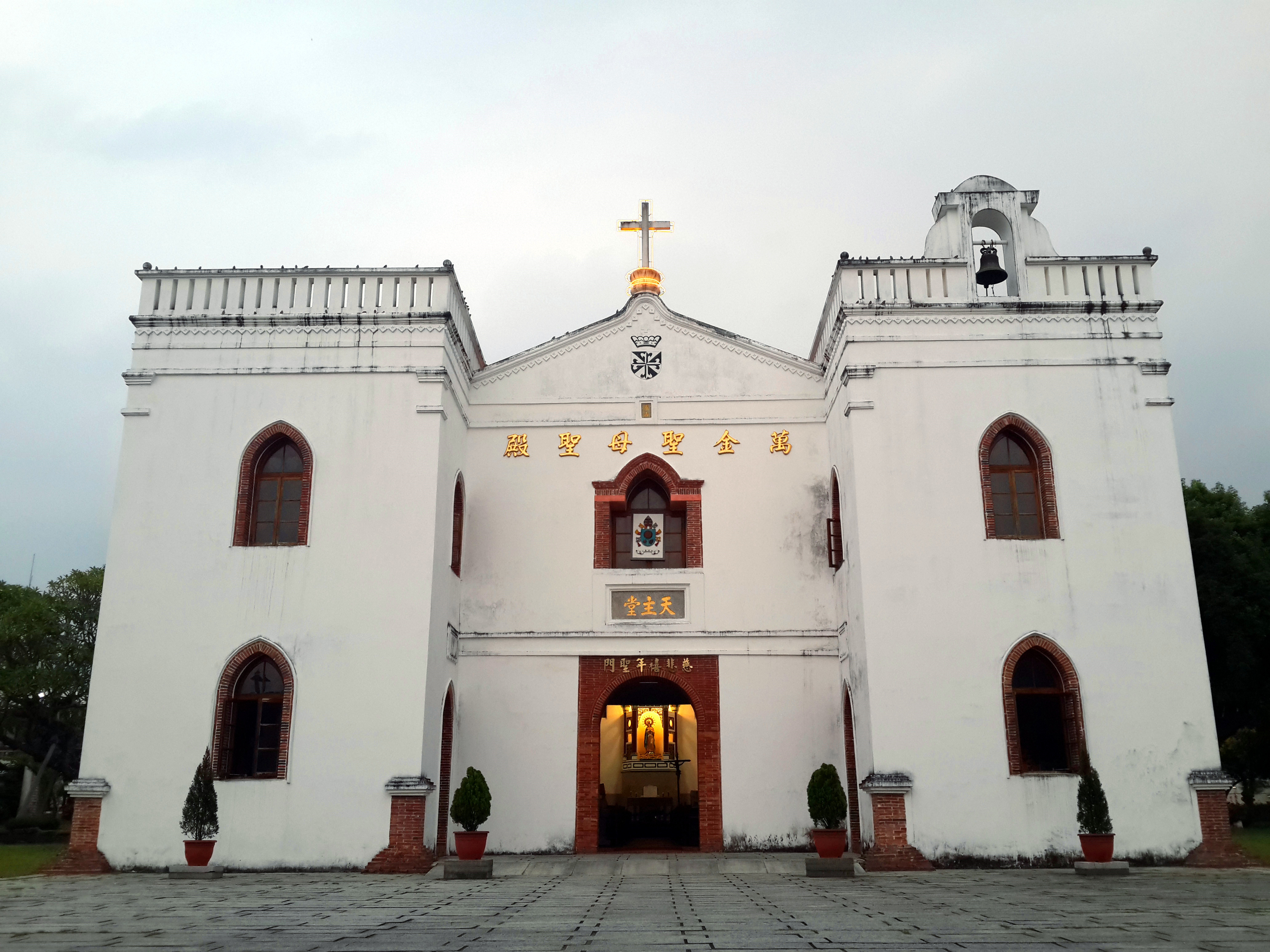 Since its establishment, the Church had undergone fire and earthquakes which resulted in the collapsing of the church walls. It was not until 1869 under the support of the converters that Father Liang Fang-Ji purchased a portion of the forestland and built what is today’s WanChin Catholic Church in the likeness of the Spanish fortress. Building materials used to build the Church at the time were mainly limes, stones, kapok fiber, grizzle bricks, brown sugar and honey mixed together with no traces of steel reinforcements, yet the mainframe remained incredibly strong; in front of the Church is the twin-tower church with façade similar to the Spanish fortress. Between the towers is a gable wall with a traditional horseback image in which a cross is erected on the horseback. A crown and Dominican Order emblem decorated the lower and upper side of the gable wall respectively; Church ceiling, wall paintings as well as engravings at both side of the wall, back penthouse, preacher’s stand, and Holy Mother’s sedan chair were all made of woods with both Oriental and Gothic decoration style merged together. In 1874 during the Ching Dynasty, Minister Shen Bao-Zhen passed by WanChin Catholic Church during his Southern Taiwan routine check and saw the cohesiveness and the bonds between local residents and converters with his own eyes. He was convinced that religion indeed does possess the strength to inspire goodness in human beings as well as the power to eliminate racial discrepancies. He then reported back to Emperor Tongtzu in requesting for the Emperor’s “Royal Script” in permission for the Church to operate along with a sacred stone with “Catholic Church” engraved and embedded above the Church. Since then, soldiers and officials must bow and pay respect to the Church during their passing.